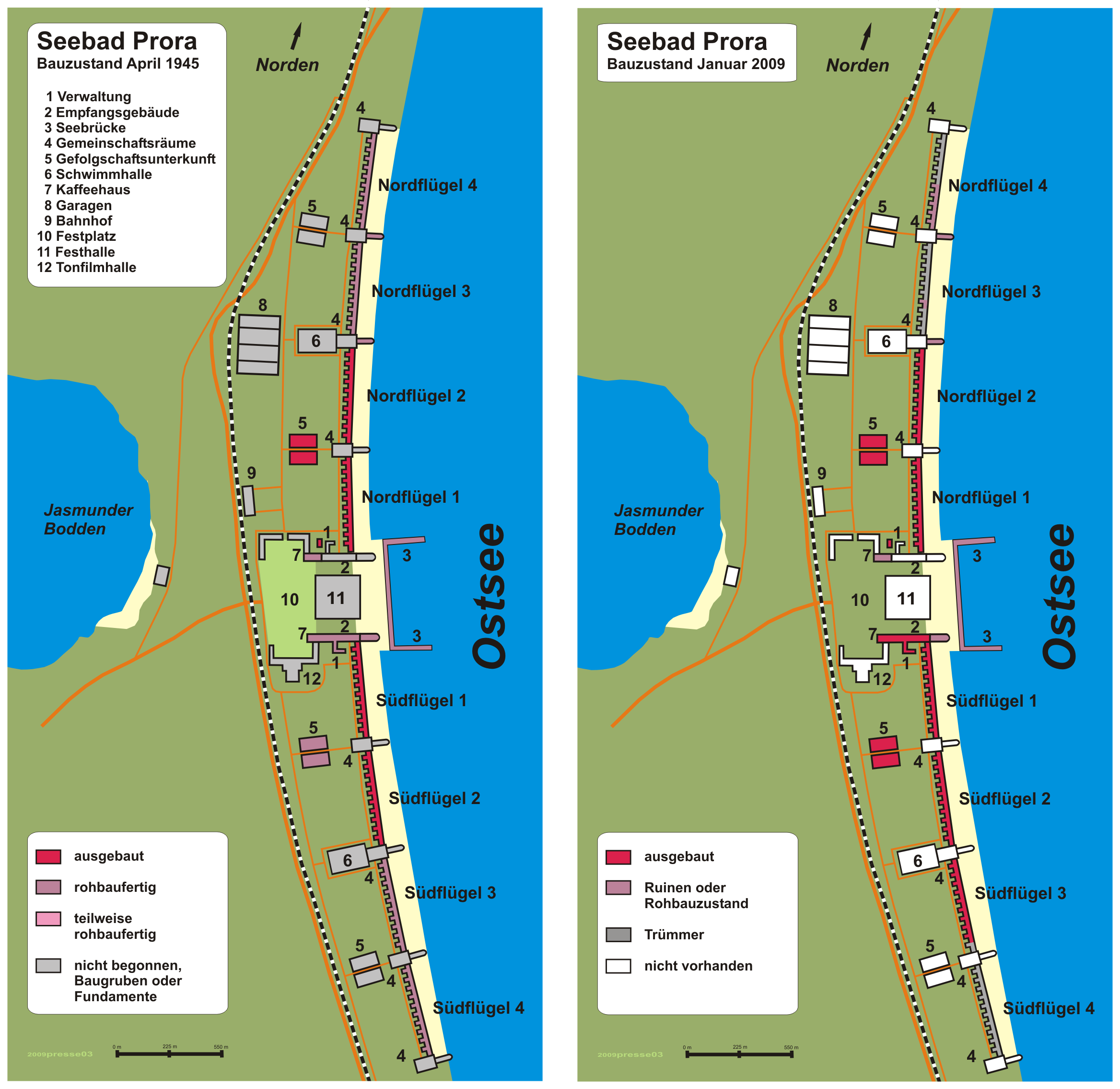 Seaside resort Prora, Rügen island, German - Plans of Strength Through Joy (KdF) complex 1945 and 2009